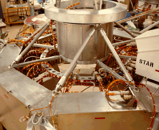 Voyager electronics